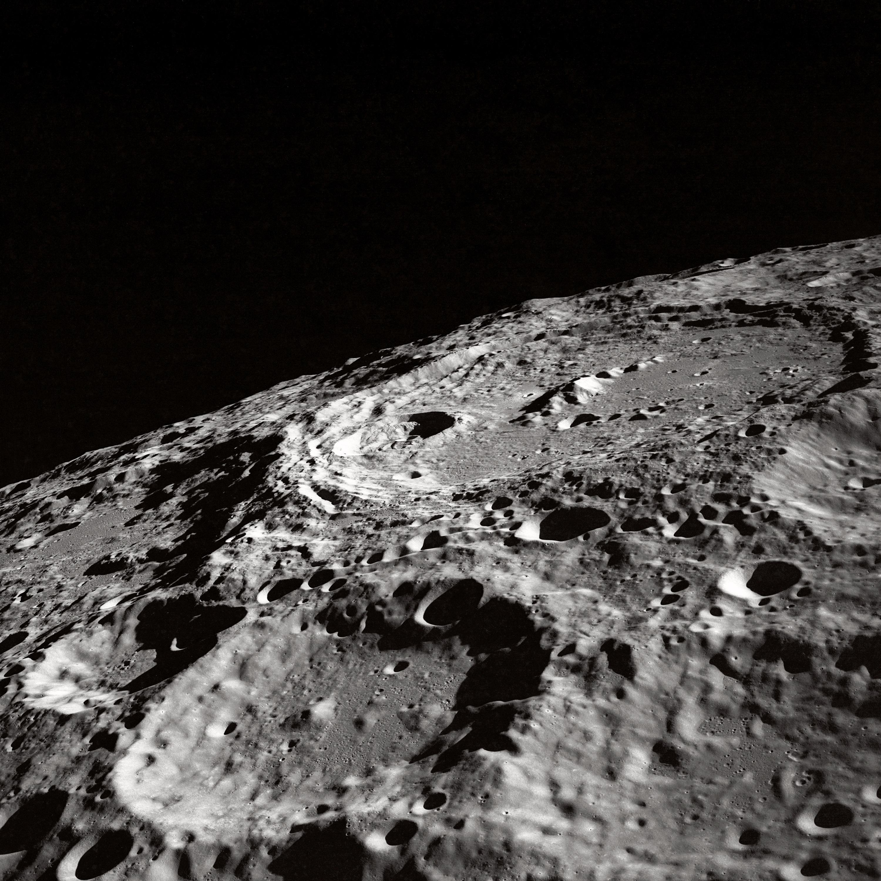 This oblique view featuring International Astronomical Union (IAU) Crater 302 on the Moon surface was photographed by the Apollo 10 astronauts in May of 1969. Note the terraced walls of the crater and central cone. Center point coordinates are located at 162 degrees, 2 minutes east longitude and 10 degrees, 1 minute south latitude. One of the Apollo 10 astronauts aimed a handheld 70mm camera at the surface from lunar orbit for a series of pictures in this area. The large crater at right is Keeler (used to be called 302), and to its left is Heaviside. This is on the far side, not on the limb as viewed from Earth. The official designation of this photo is AS10-32-4823.